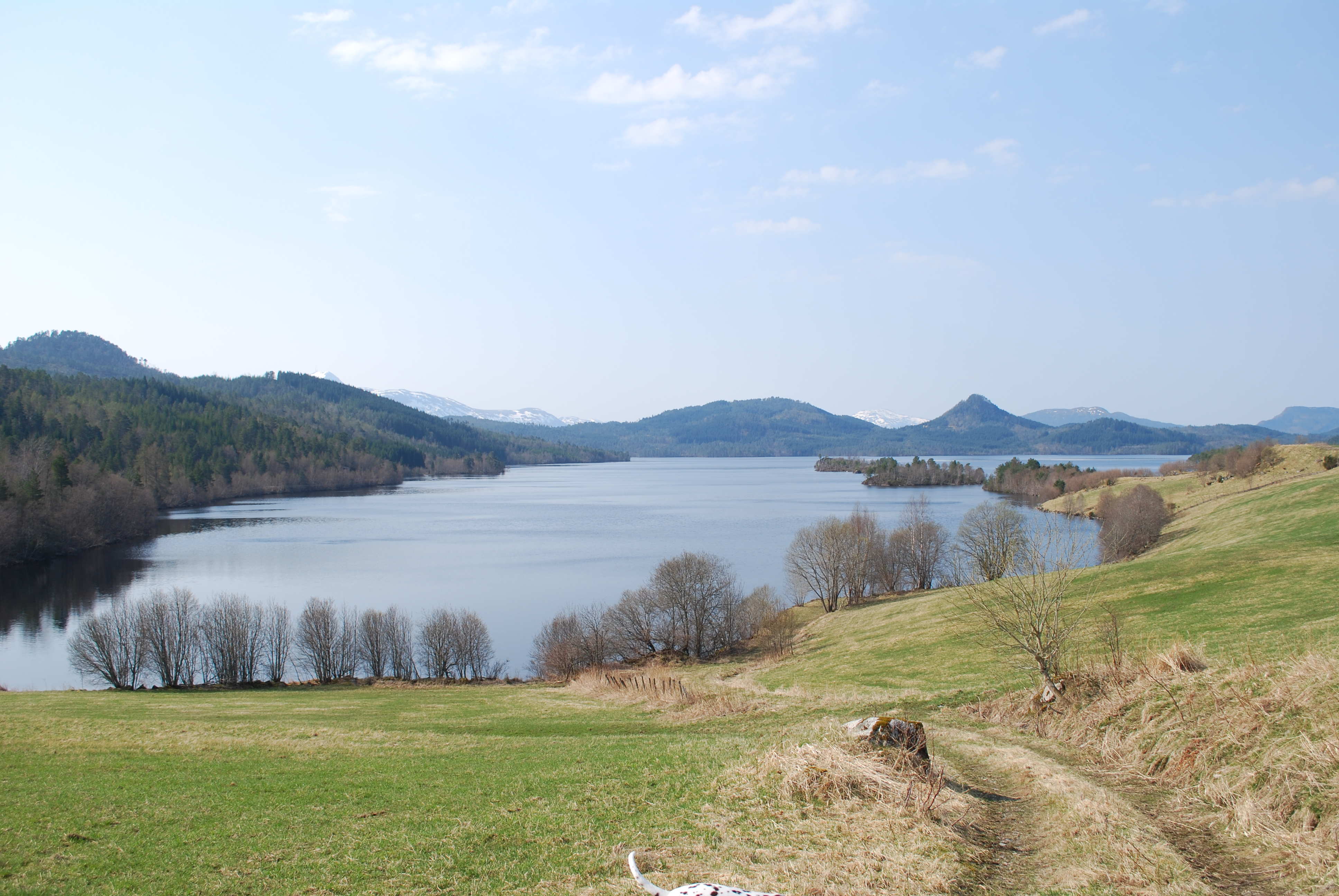 Storvatnet in Tingvoll kommune in Møre og Romsdal, Norway.